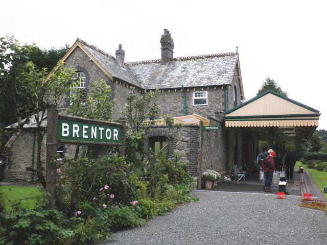 Former railway station, Brentor